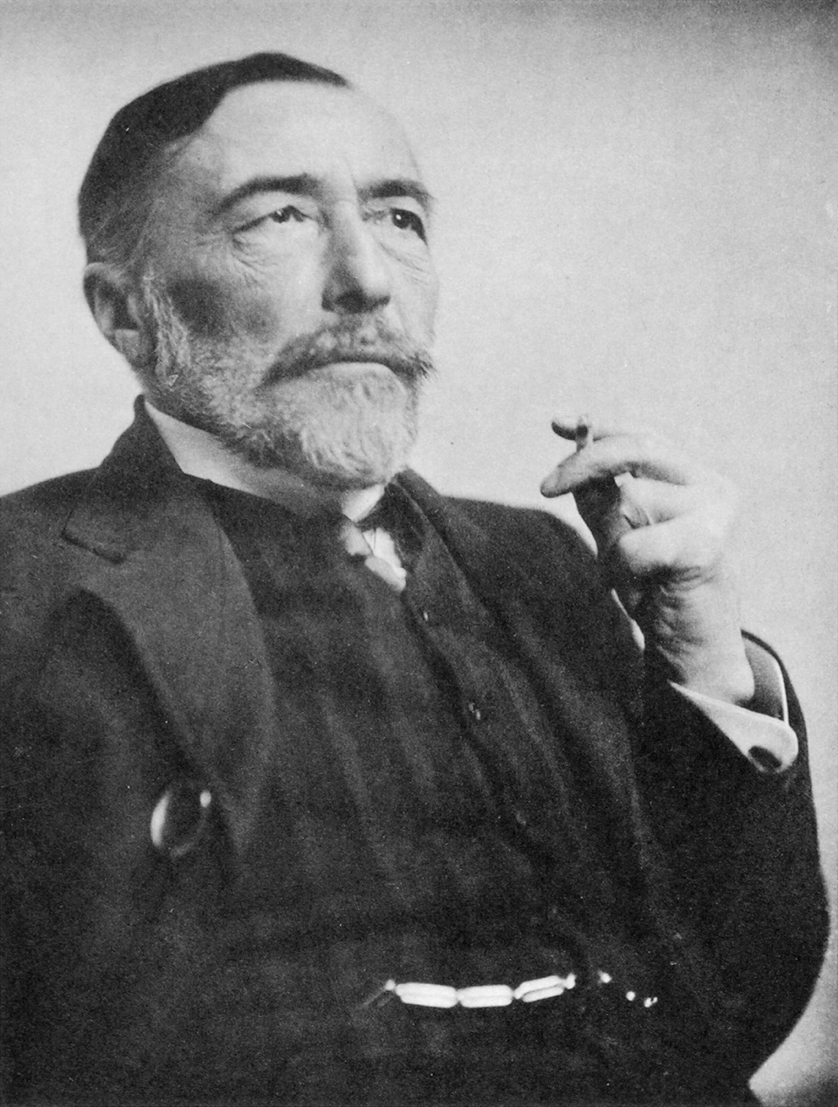 Joseph Conrad in 1916. Medium: Photogravure